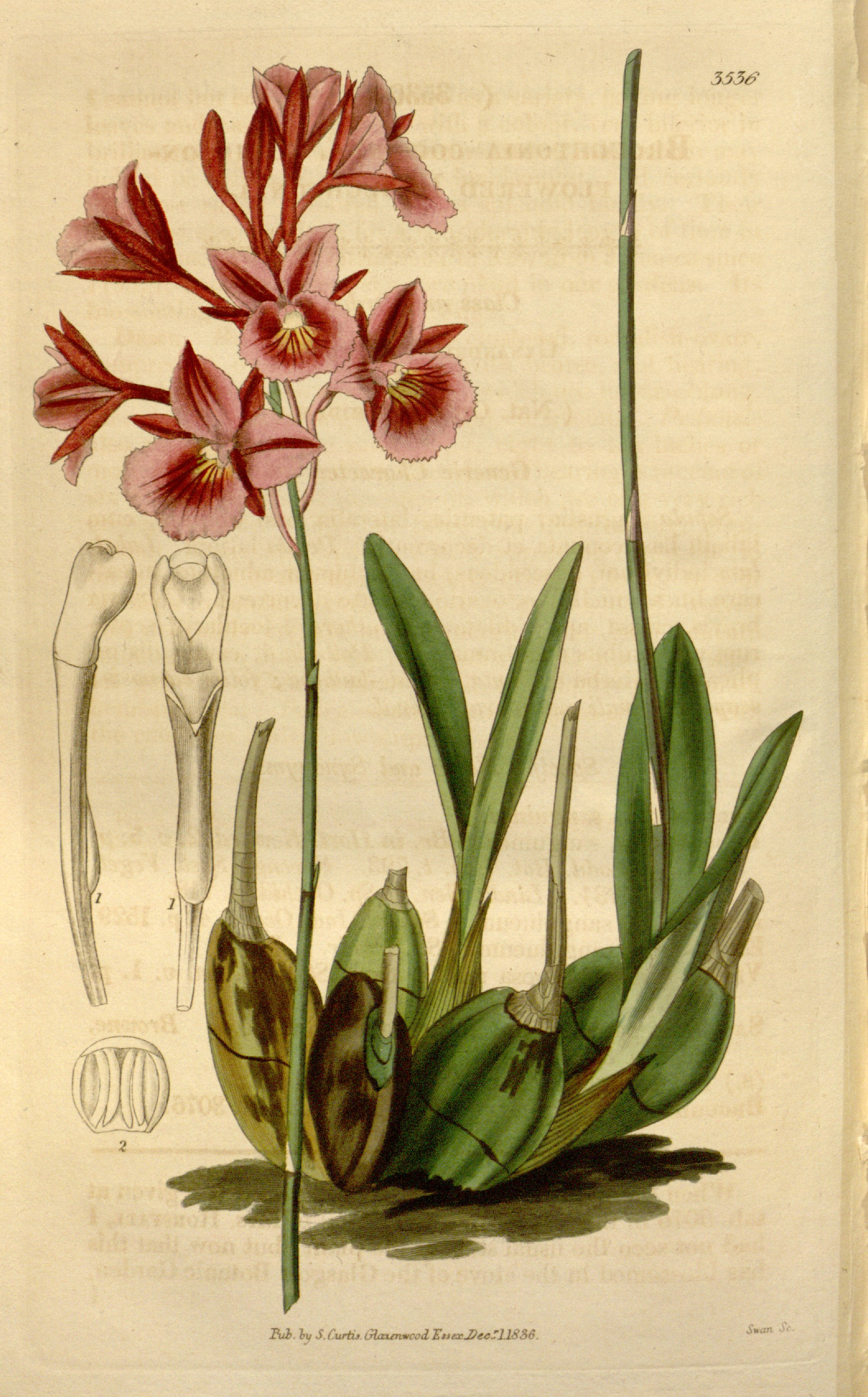 Illustration of Broughtonia sanguinea (as syn. Broughtonia coccinea)